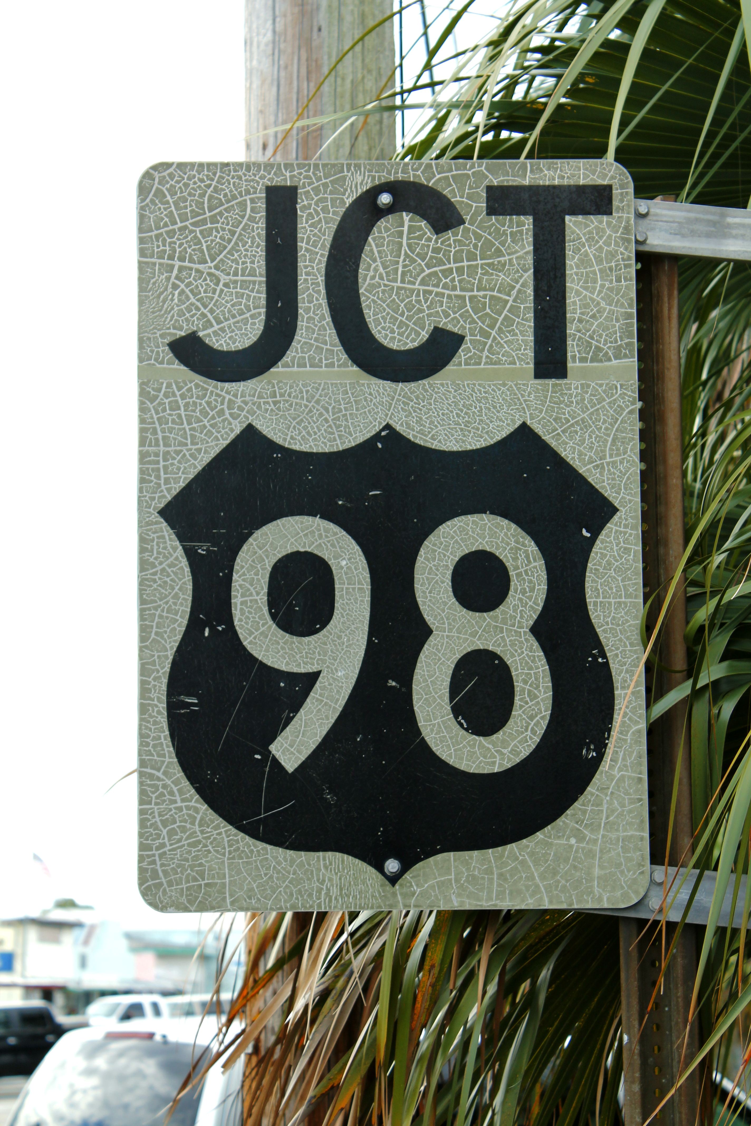 A black US Route 98 road sign shield, located in Carabelle, Florida.